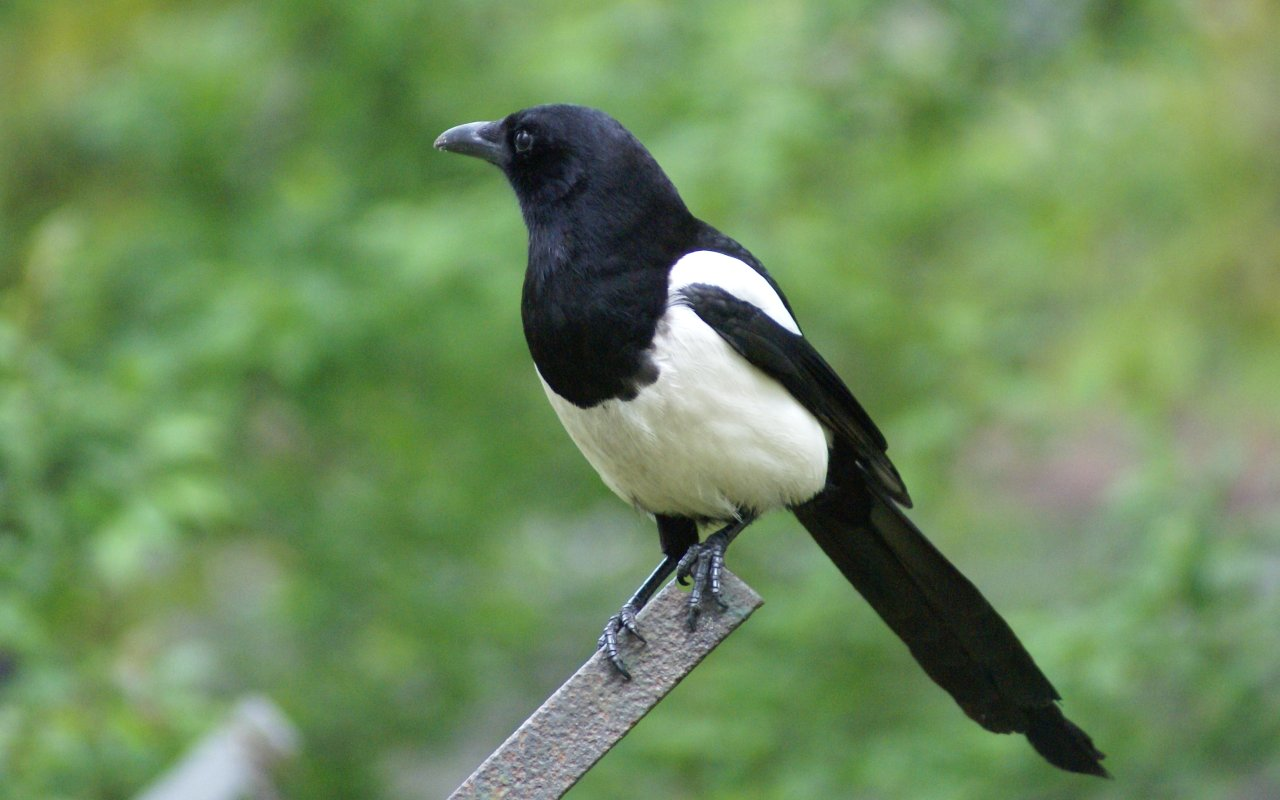 European Magpie or Common Magpie in Poland.